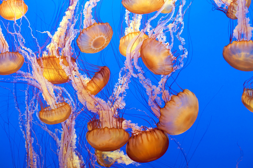 Sea Nettle Jellyfish at Monterey Bay Aquarium Exhibit